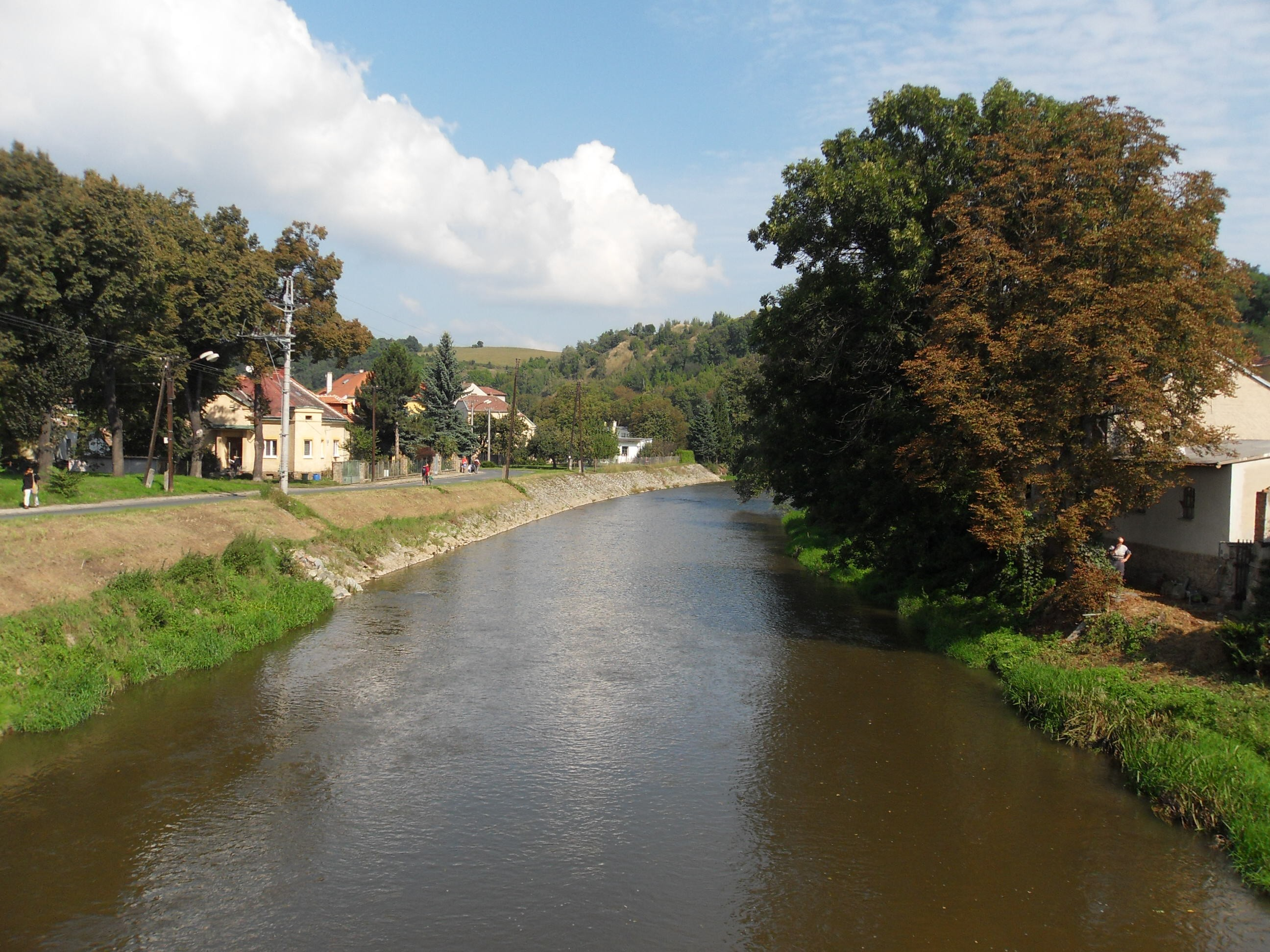 Oslava river, Oslavany, Brno-venkov District, Czech Republic